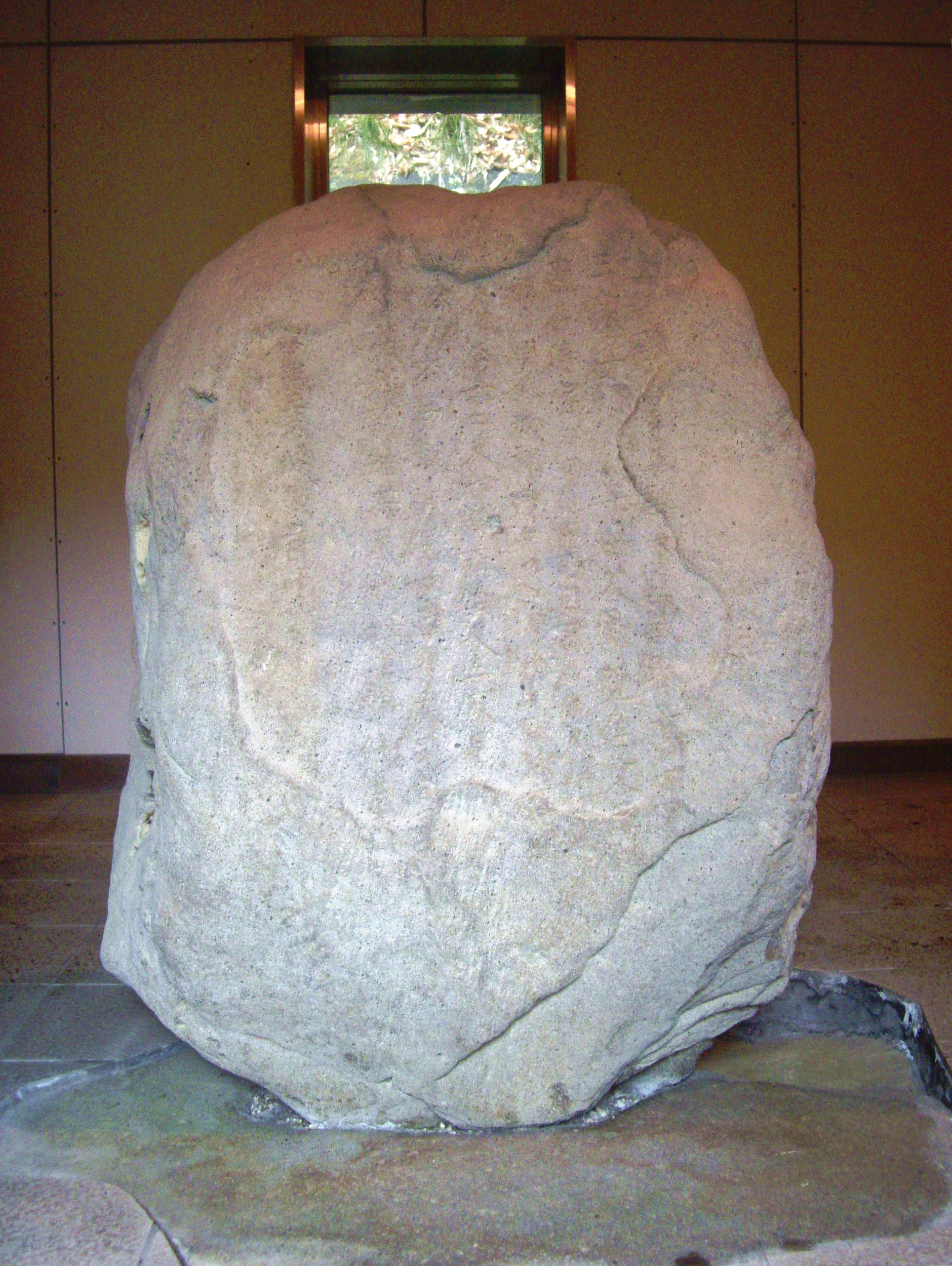 "Kanaizawa-no-hi" stone monument, in Takasaki, Gunma Prefecture, Japan